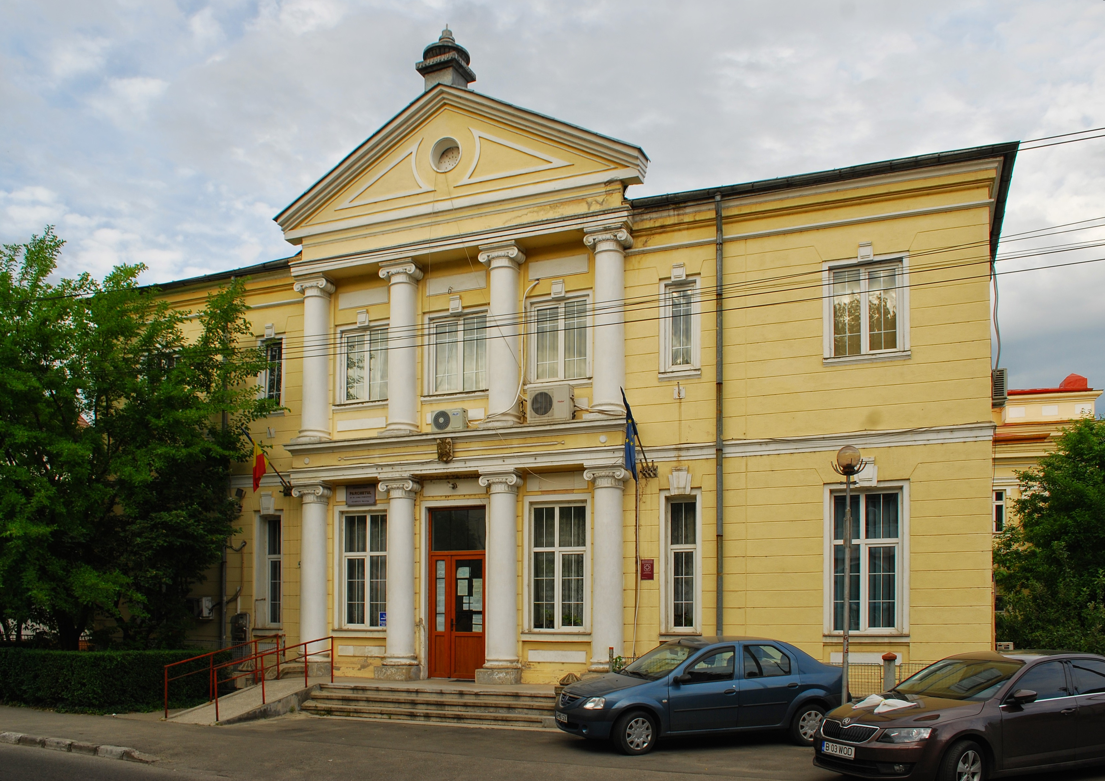 Courthouse in Râmnicu Vâlcea, RomaniaRomână: Fosta Judecătoria Rm. Vâlcea, azi Parchetul Vâlcea. - municipiul Râmnicu Vâlcea Str. Carol I 10